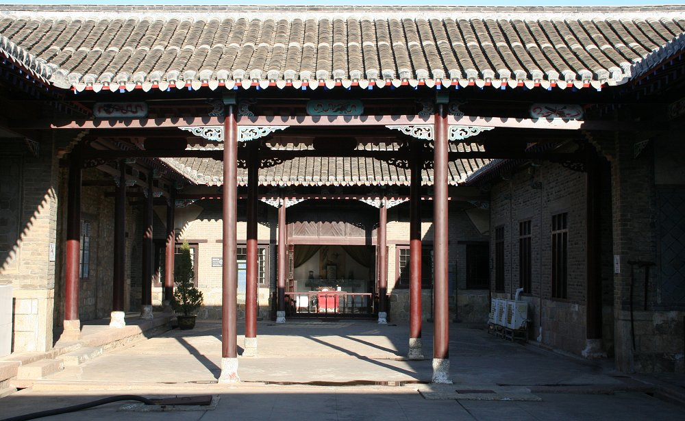 Office of Admiral Ding Ruchang on Liugong Island, Weihai, PRC